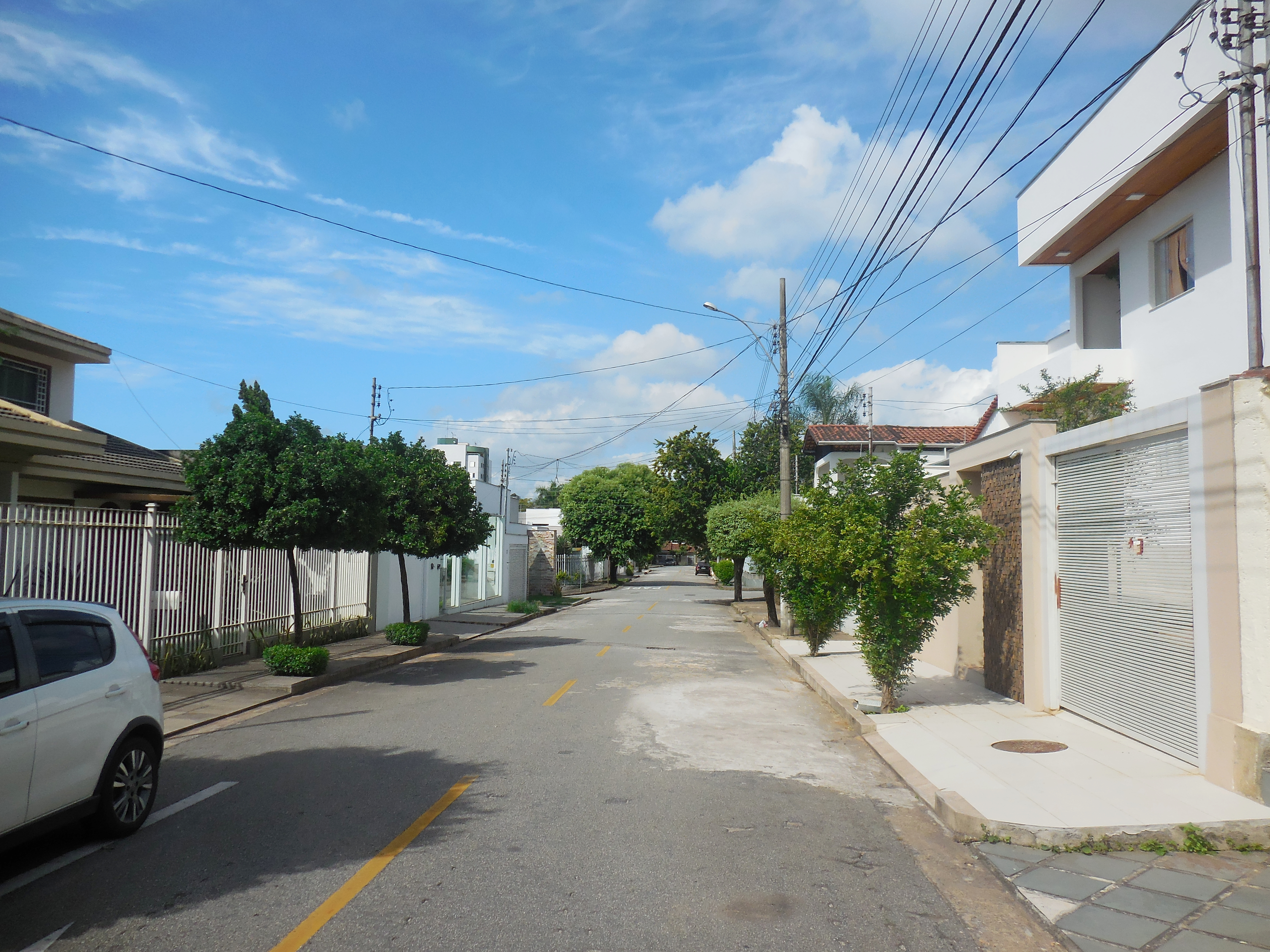 The Tchecoslováquia street in the Cariru neighborhood, in Ipatinga, Minas Gerais, Brazil.